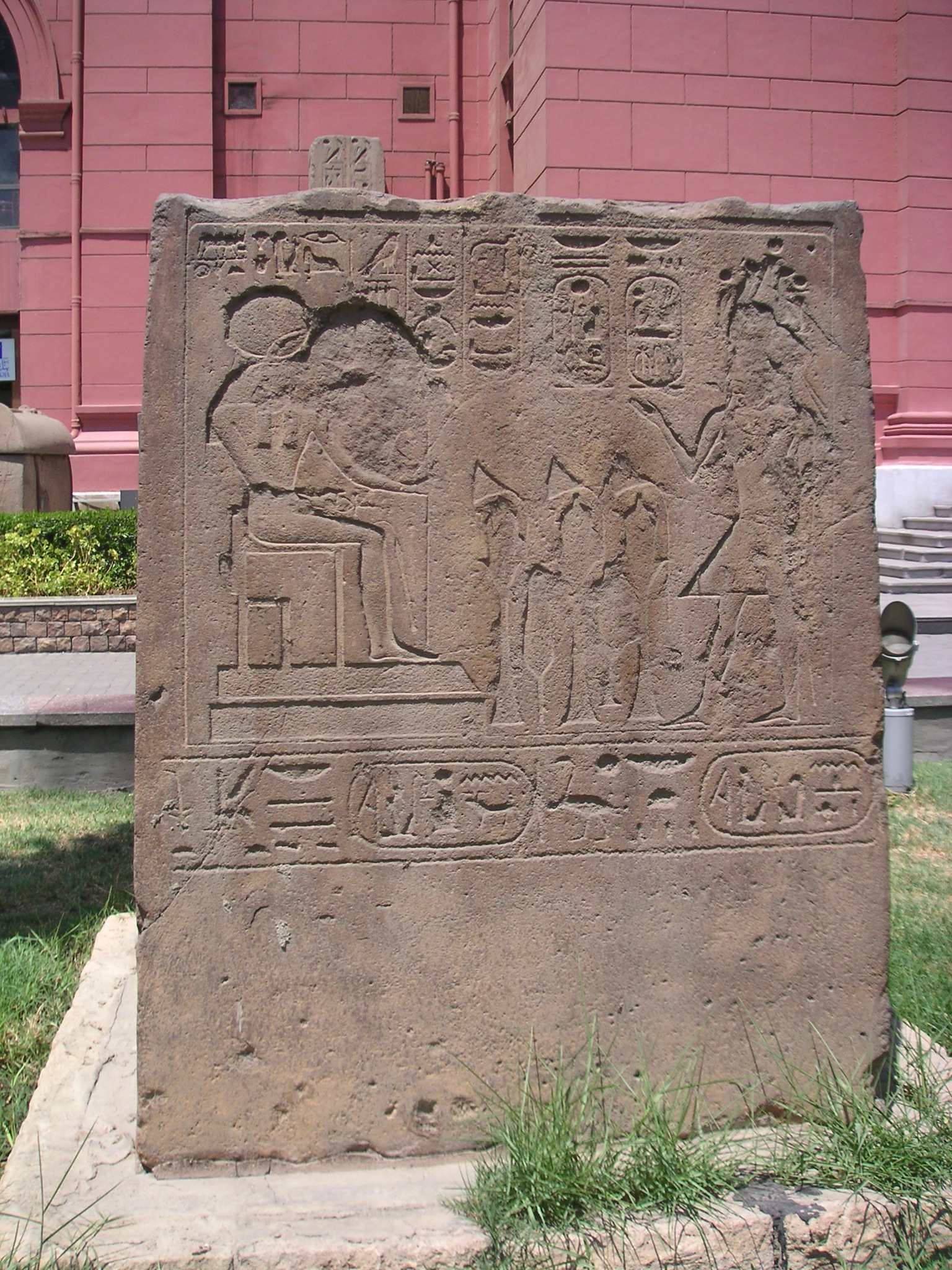 Scene representing Rameses II offering to the god Horus Khenty-Khety, "Osiris standing at Athribis". Base of the 2 obelisks of Athribis erected by Rameses II and finished by his son and heir, Merenptah - 19th Dynasty of Egypt - Garden of the Cairo Museum (photo 15-August-2005).